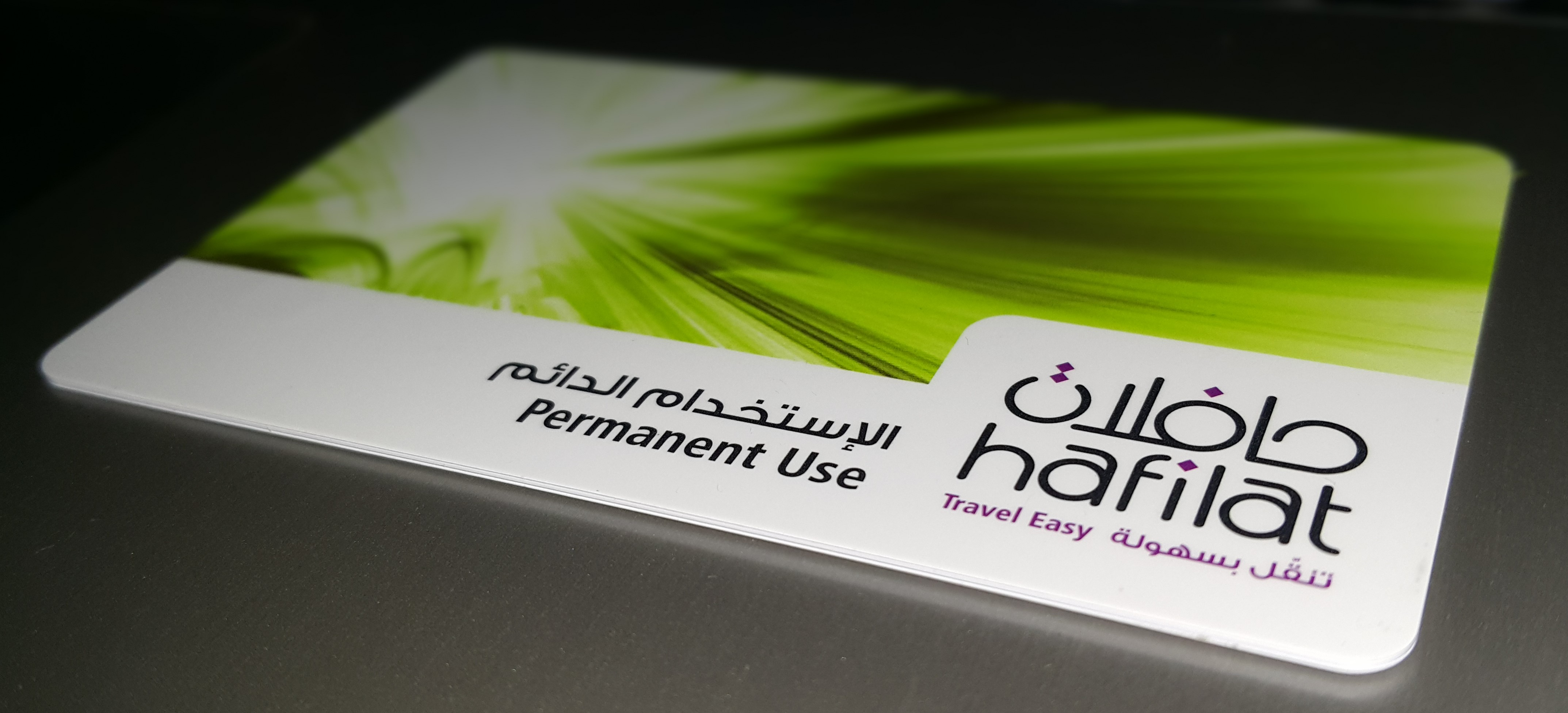 A Hafilat Card - Abu Dhabi Bus Service